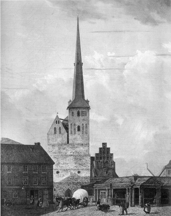 The Nicolai quarter mit the Nicolai church in Berlin